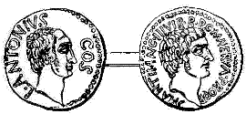 738 woodcuts illustrating the work A Dictionary of Roman Coins, Republican and Imperial (1889). To identify a coin please look at the filename to identify a page number, and check the Dictionary on numiswiki